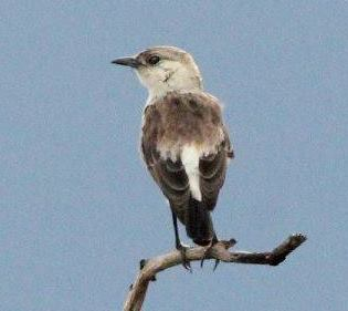 Congo moor chat at Munhango in Angola